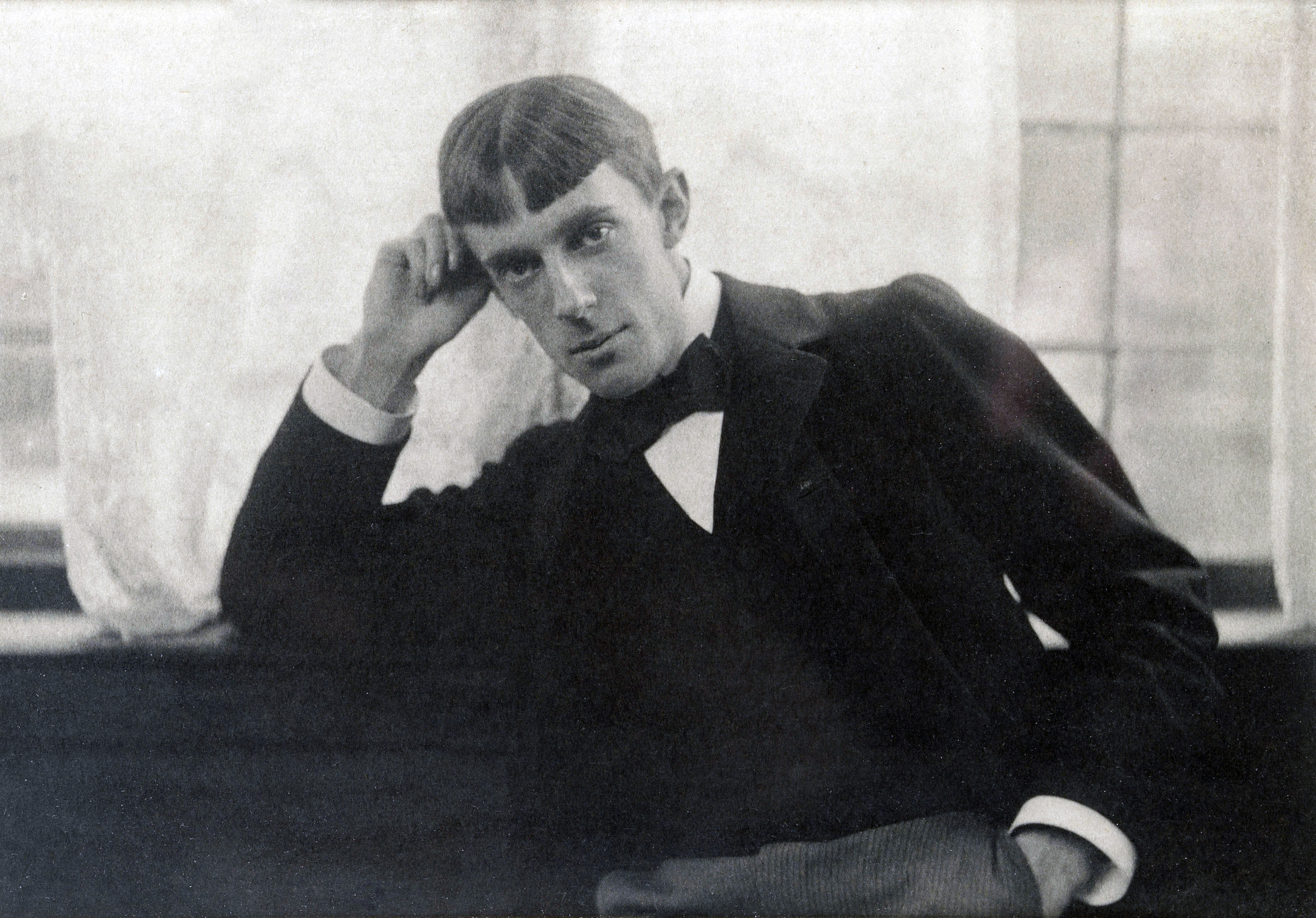 Portrait photograph of Aubrey Beardsley